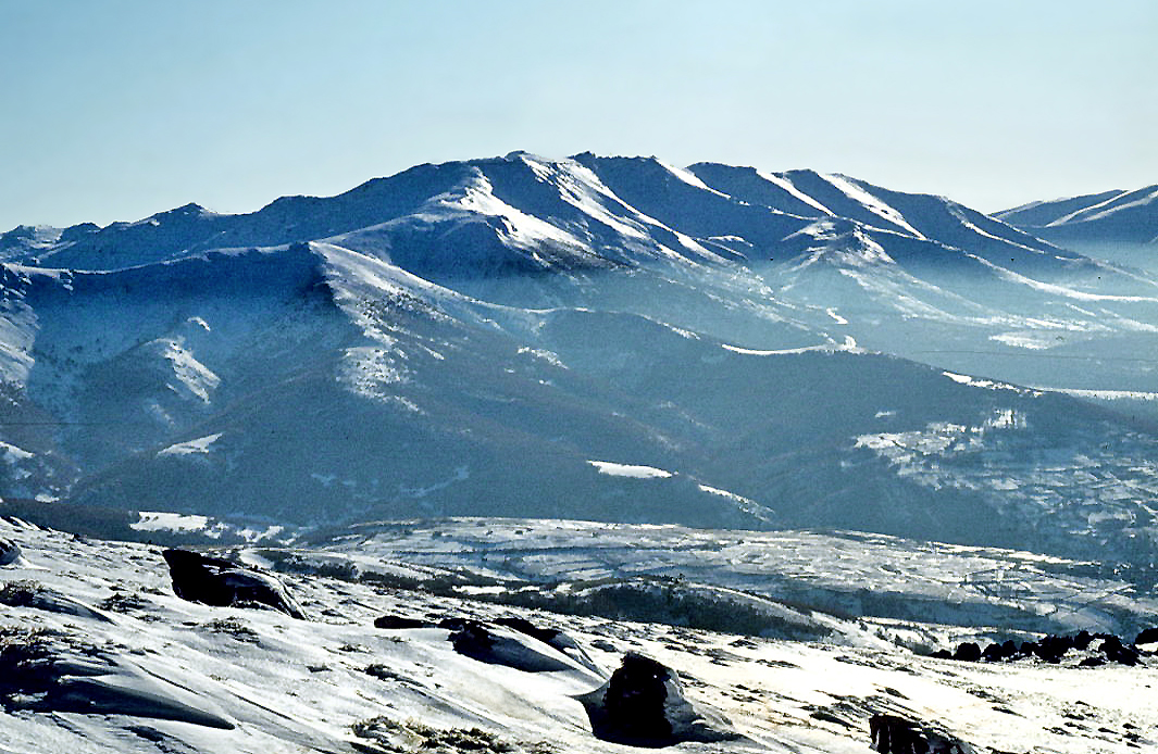 El Lobo Massif from El Calamorro divide; north face of Ayllón Range. Segovia, Castile and León, Spain